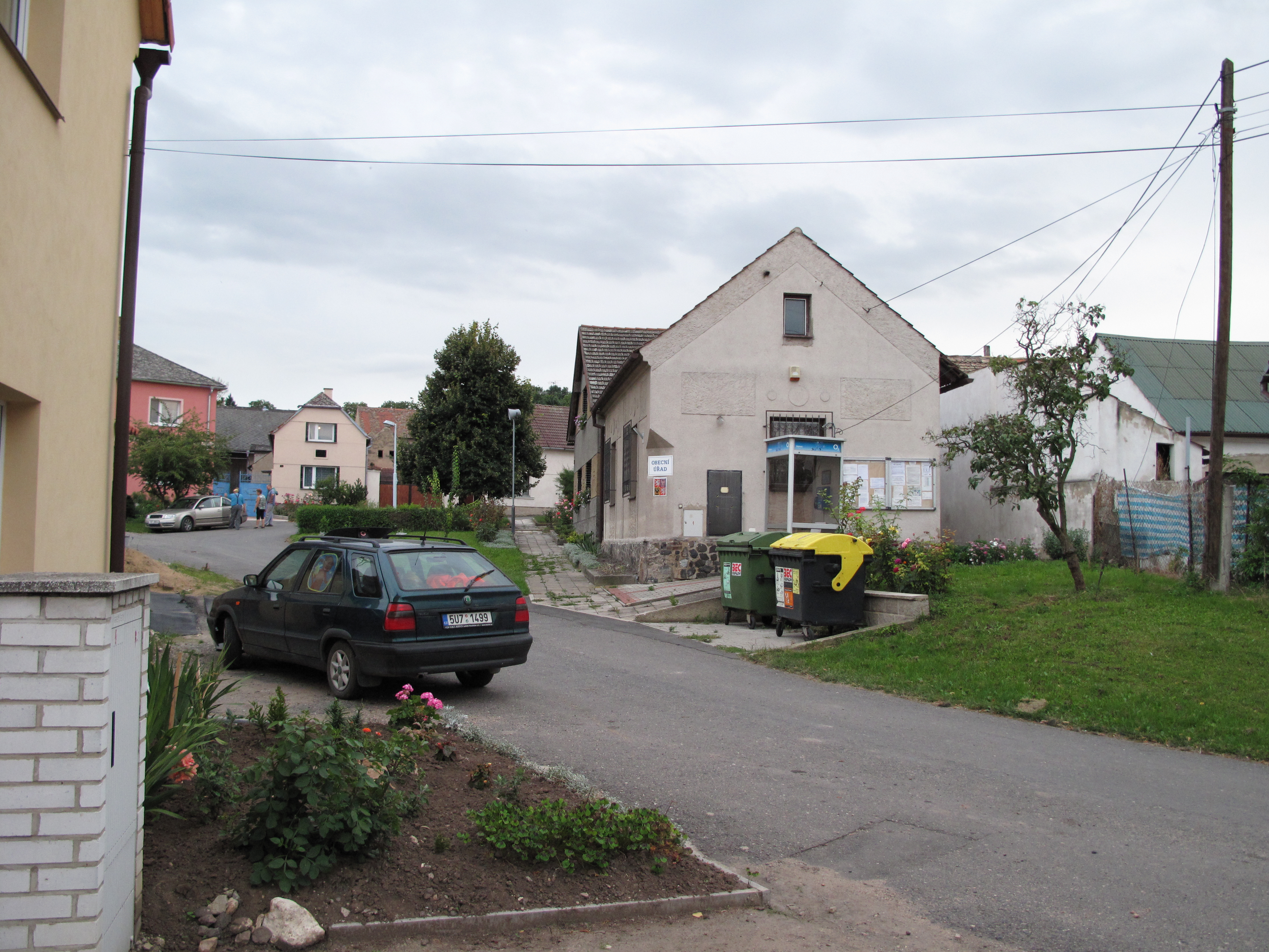 Municipal office in Chodovlice village, Litoměřice district, Czech Republic.